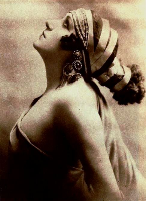 Actress Eugenia Zuffoli, on page 52 of the January 1922 Photoplay.